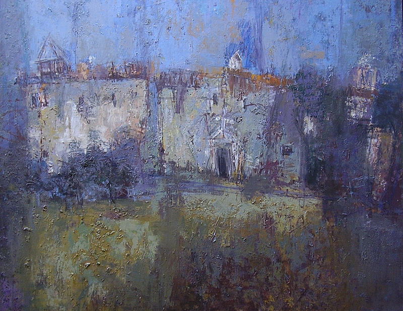 "Studenica", painting, oil on canvas, 2004. Zoran Rajković (1949). Painter from Serbia